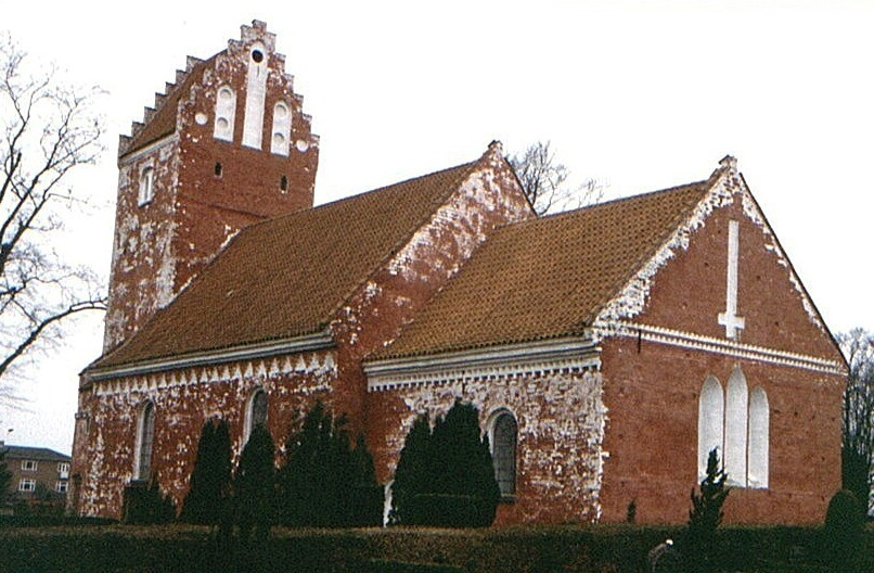 Gundslev Kirke (church)